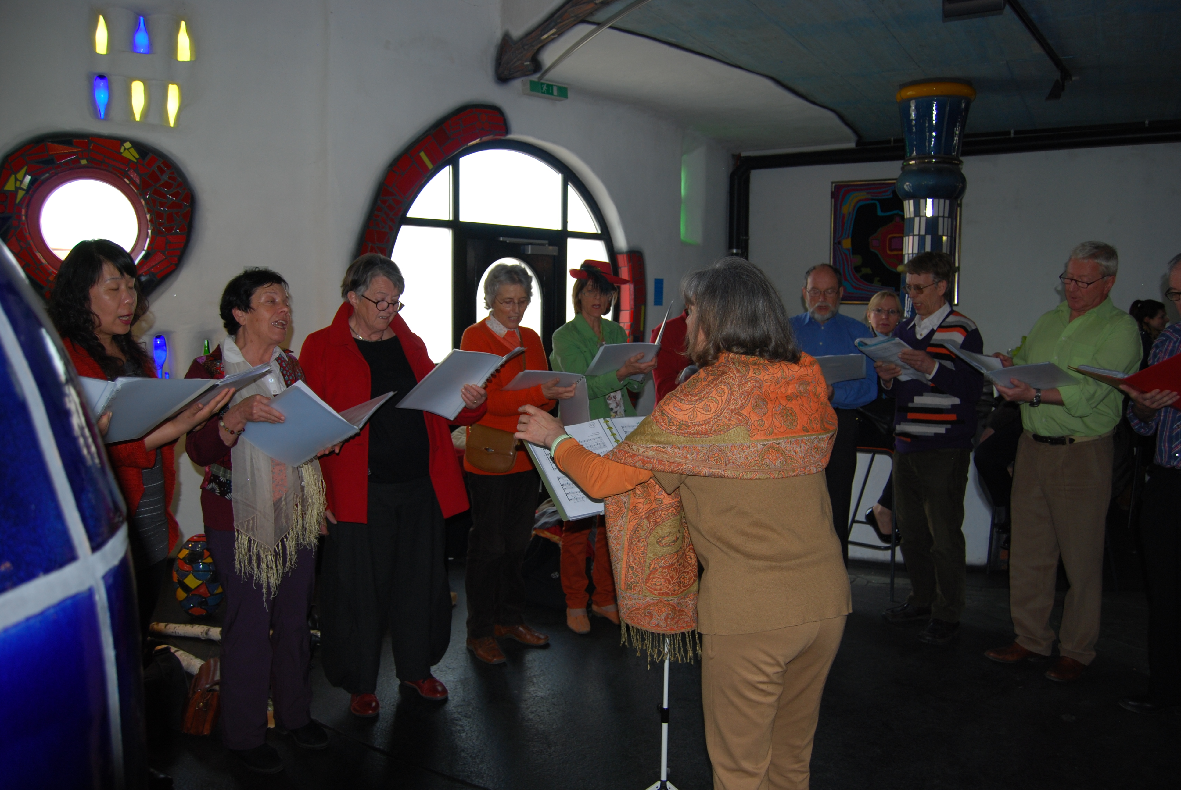 Swiss Esperanto Chorus in the Market Hall of Hundertwasser at Altenrhein, municipality of Thal, canton of St. Gallen, Switzerland